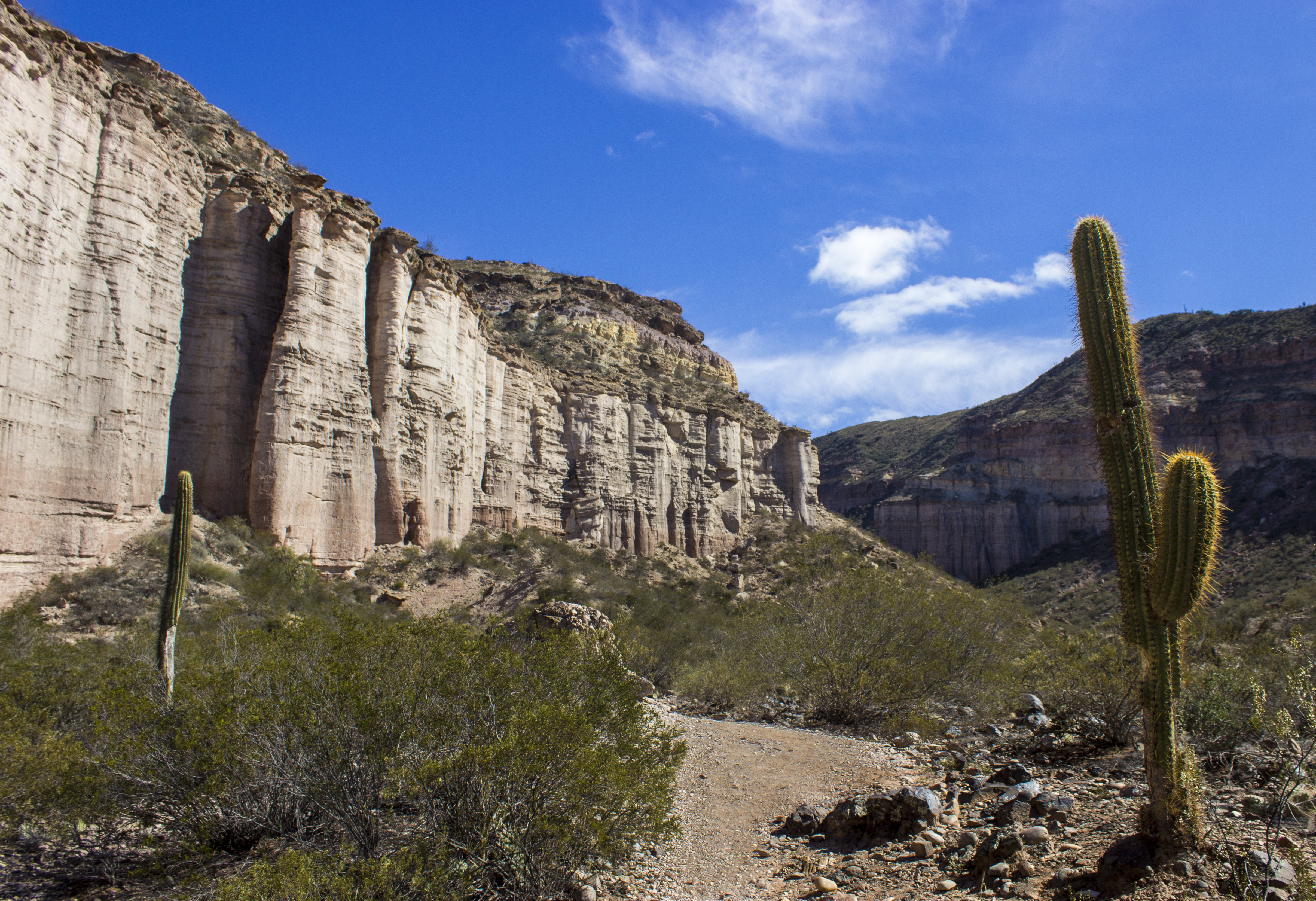 Parque Provincial El Chiflon, La Rioja, Argentina